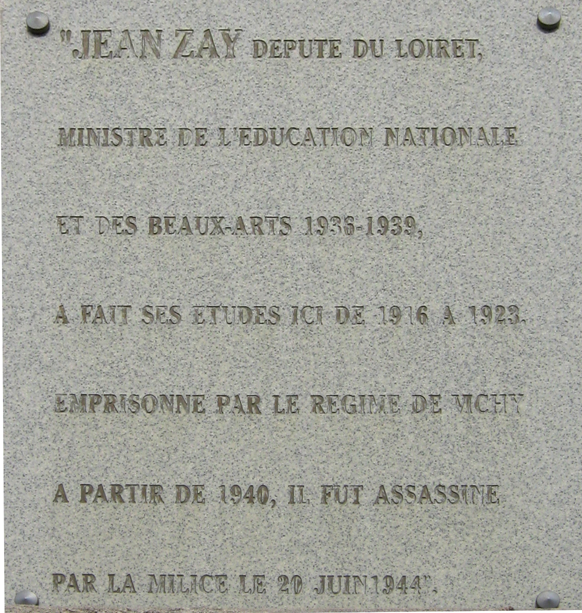 Plaque remembering Jean Zay, member of the French Parliament, on the façade of former Collège Bailly (now closed), where stood before lycée Pothier, in Orléans.